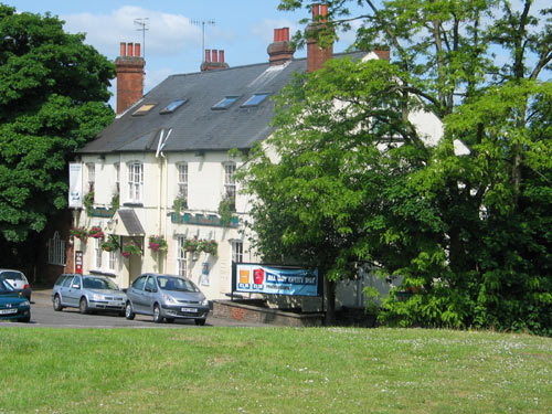 The Midland Hotel, Hemel Hempstead.